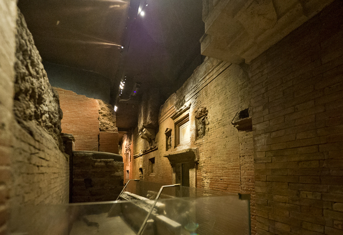 General view of the path leading to (alleged) St Peter's tomb through Roman cemetery.